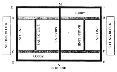 Kabaddi court dimensions